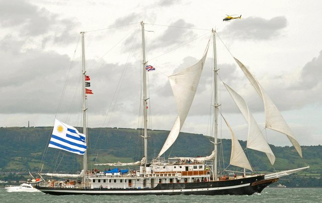 Tall ships, Belfast Lough, 2009 (8) The Capitan Miranda, a 205ft schooner launched as a cargo vessel. In 1978 converted to a training ship for the Uruguayan navy.